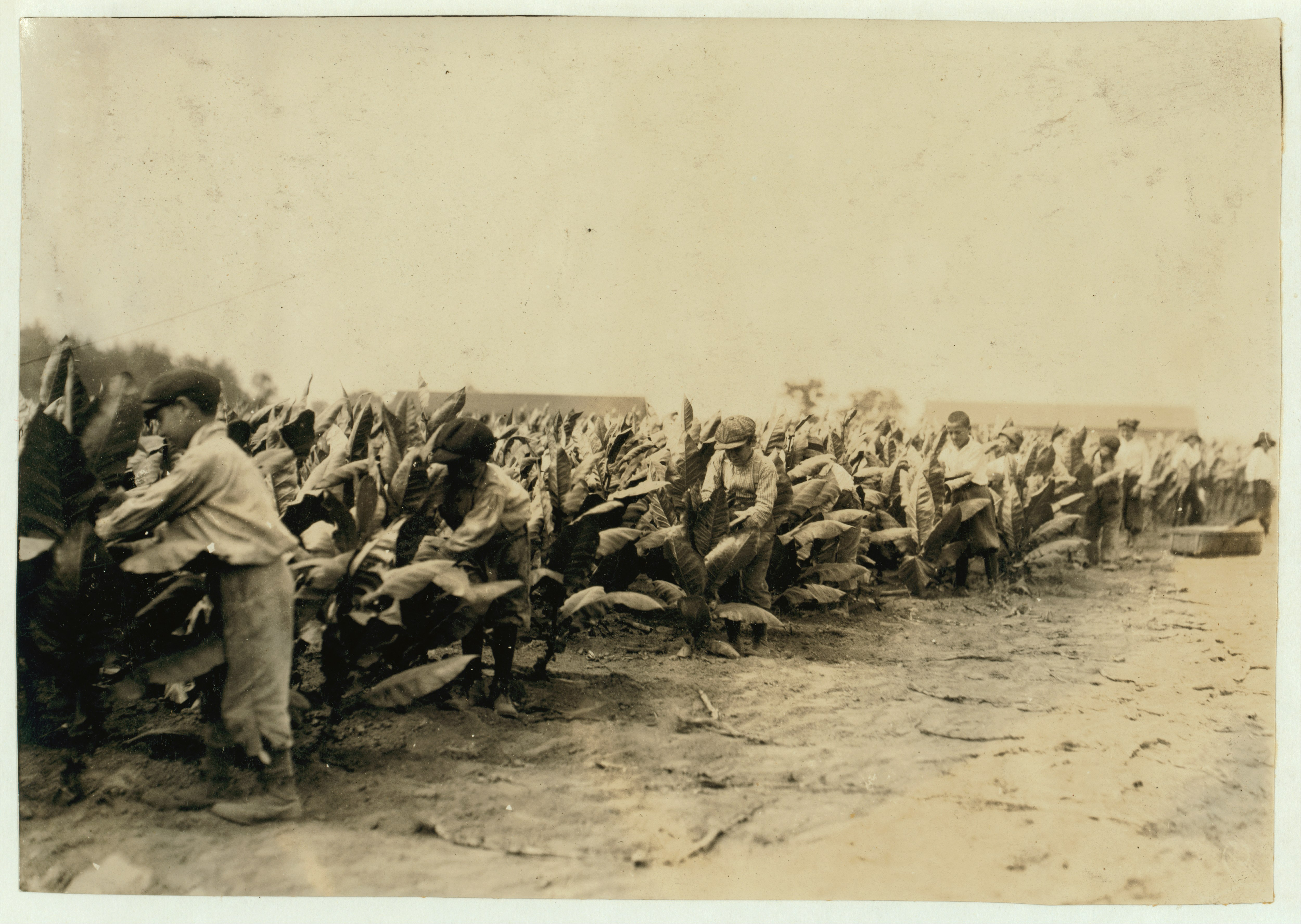 Title: Tobacco pickers on Goodrich Farm, "Second picking." The tobacco plants are often much taller than the children, and the air close and humid, especially when they are working on the ground. Abstract: Photographs from the records of the National Child Labor Committee (U.S.) Physical description: 1 photographic print. Notes: Boys.; Agricultural laborers.; Tobacco industry.; Harvesting.; Croplands.